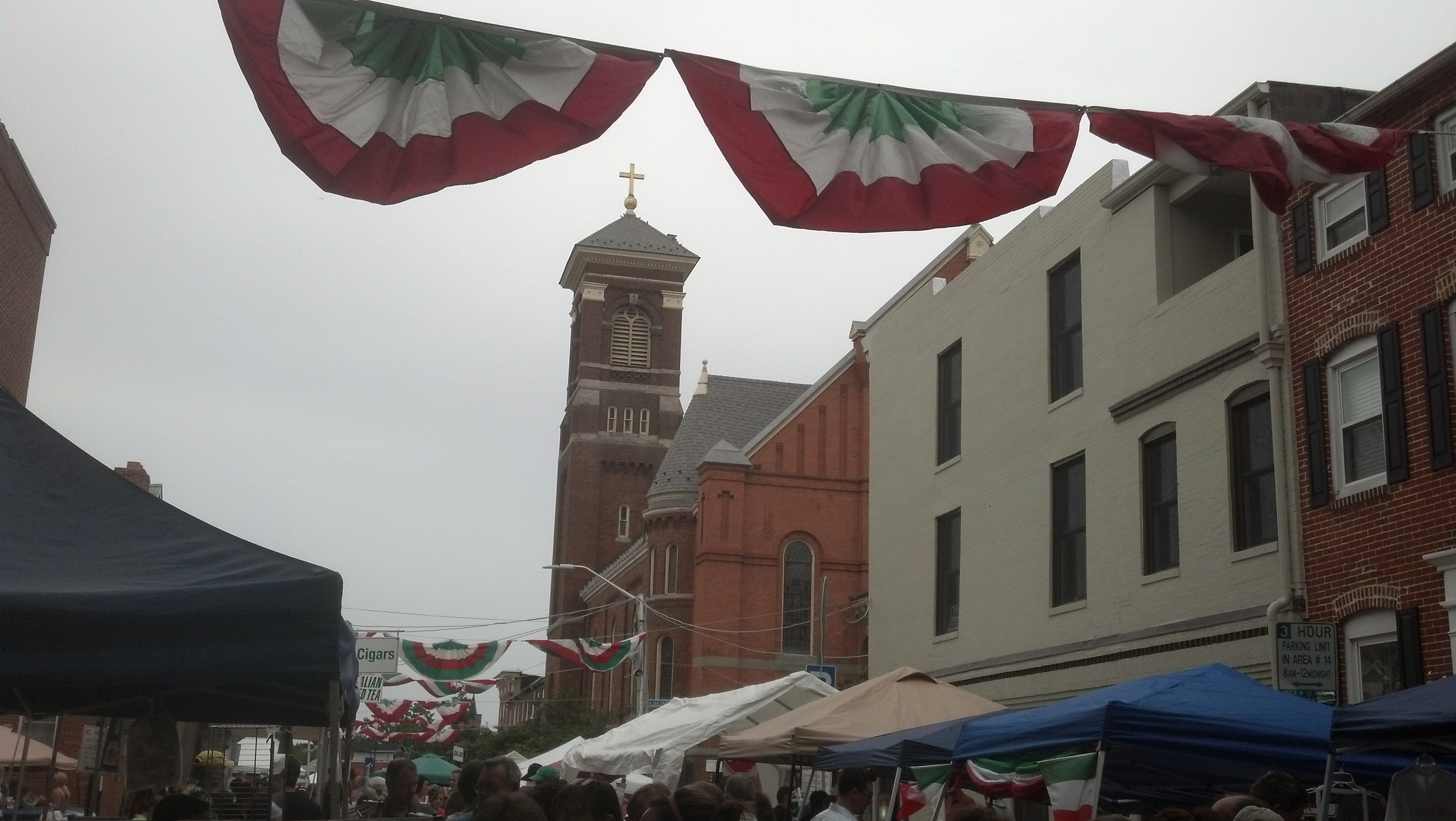 St. Leo's Church - St Leo's church seen from a distance during the Feast of St. Gabriel in Little Italy.